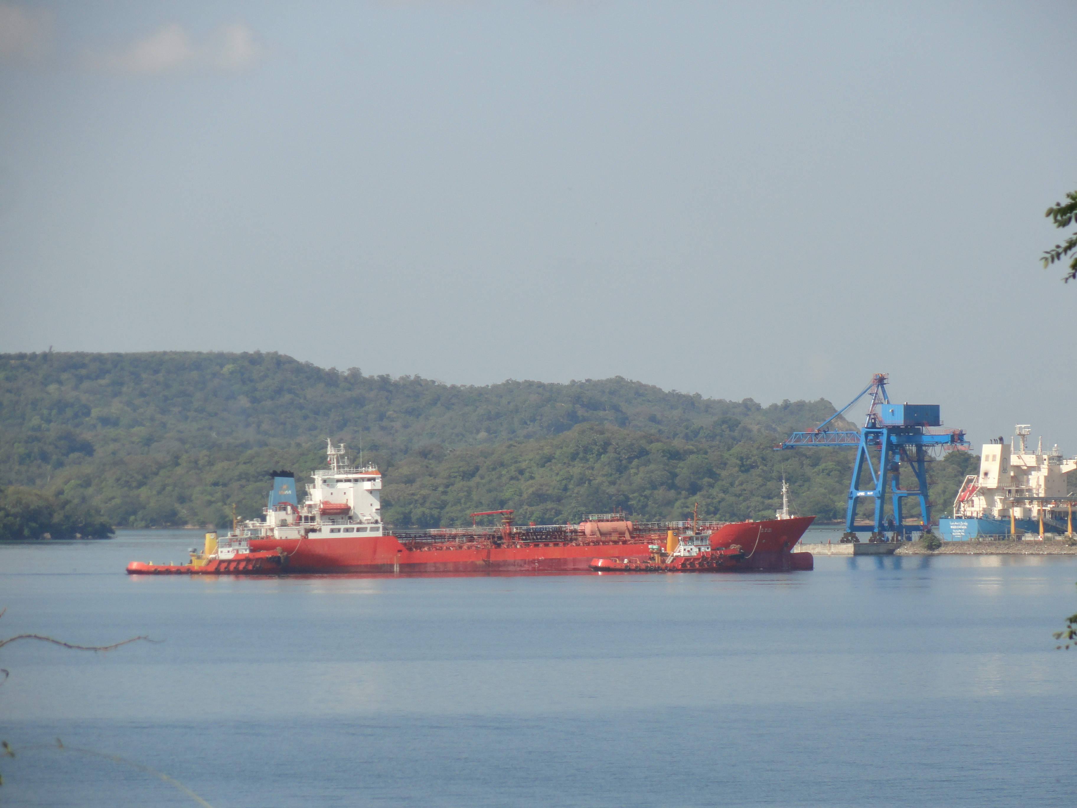 A ship near the Trincomalee Harbour, Sri Lanka.